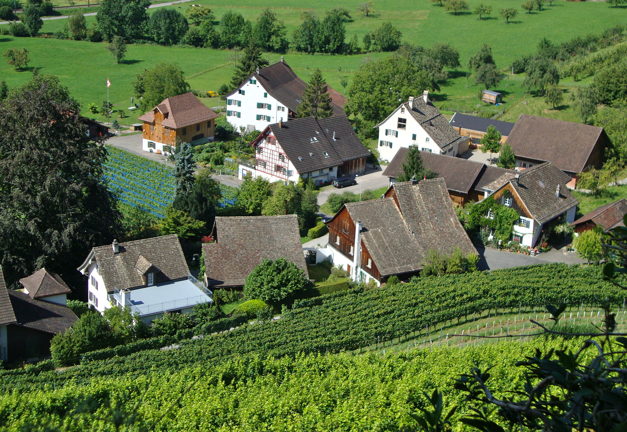 Mutzmalen centre